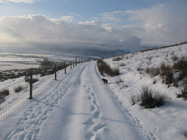 Rossendale Way Footpath This footpath, covered in snow, is part of the Rossendale Way which is a 45 mile circuit walk. It takes in much of the areas history and can be broken down into 8 shorter walks from 3.5 miles to 8 miles. It is a high-level route connecting Bacup, Rawtenstall, Haslingden and Whitworth in the Rossendale Valley, crossing the open moors and farmland of the South Pennines which roughly follows the Rossendale Borough boundary. The walk is suitable for walkers of all abilities. Although not difficult, conditions underfoot can be wet and snow covered in winter so waterproof footwear is recommended.